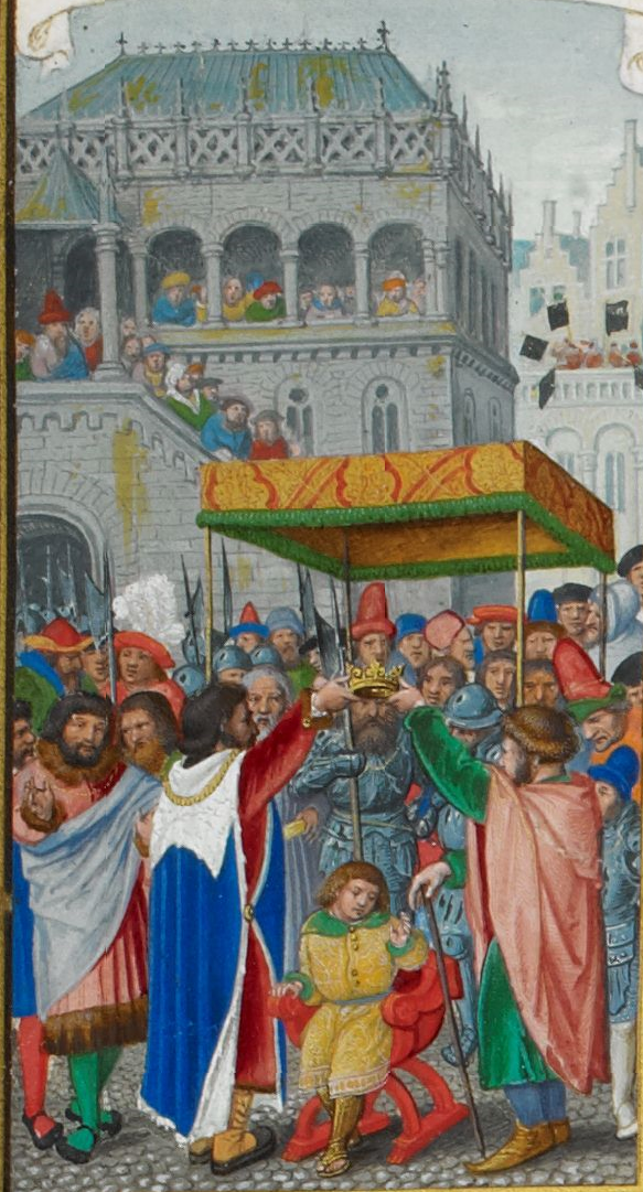 Coronation of Garcia Iñiguez, king of Pamplona